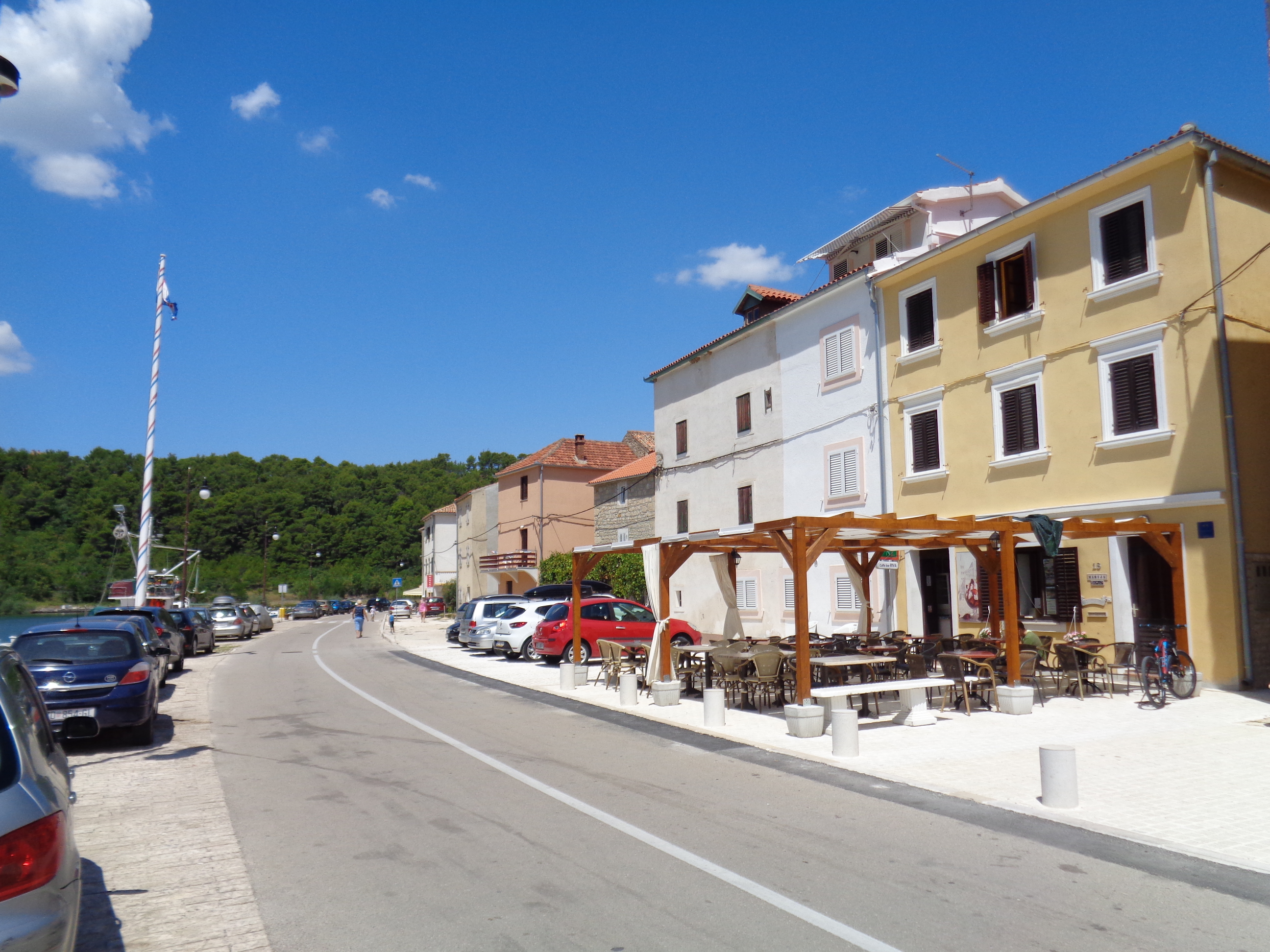 Novigrad (=New Town), Zadar County, Dalmatia Region, Republic of Croatia - main street